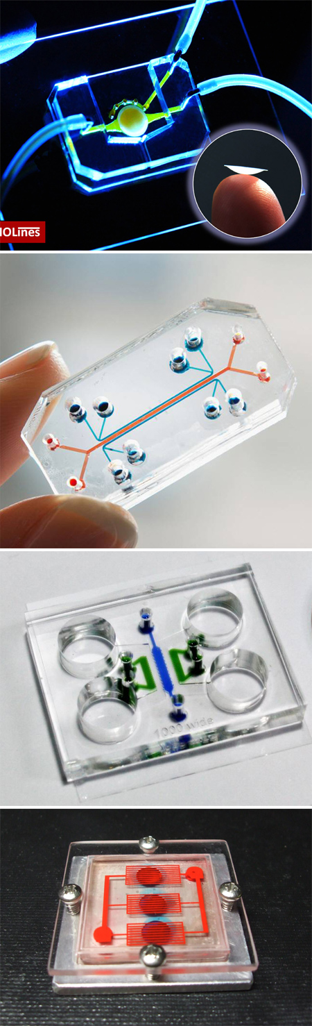 Organ on a chip.